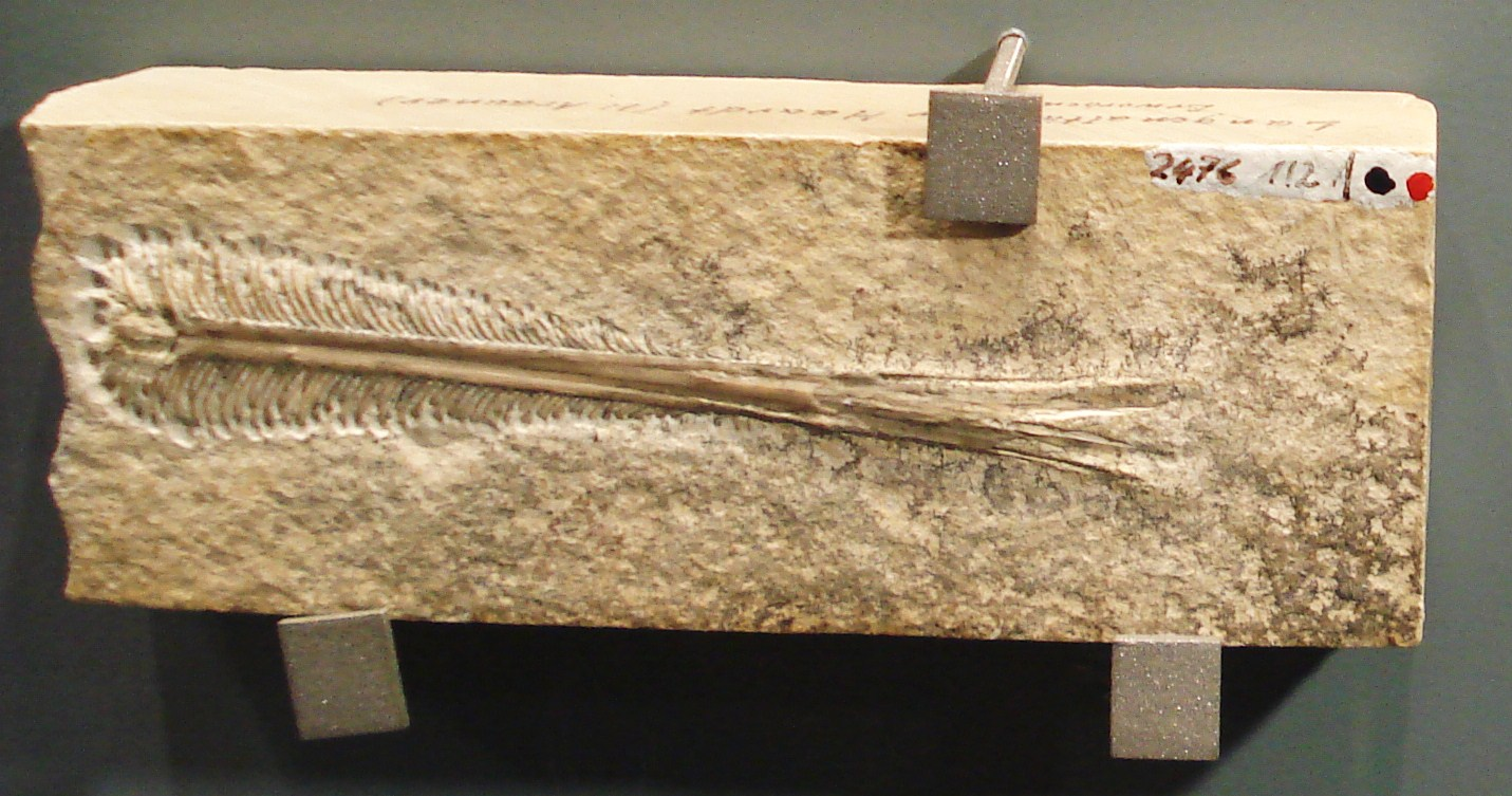 fossil of ctenochasma